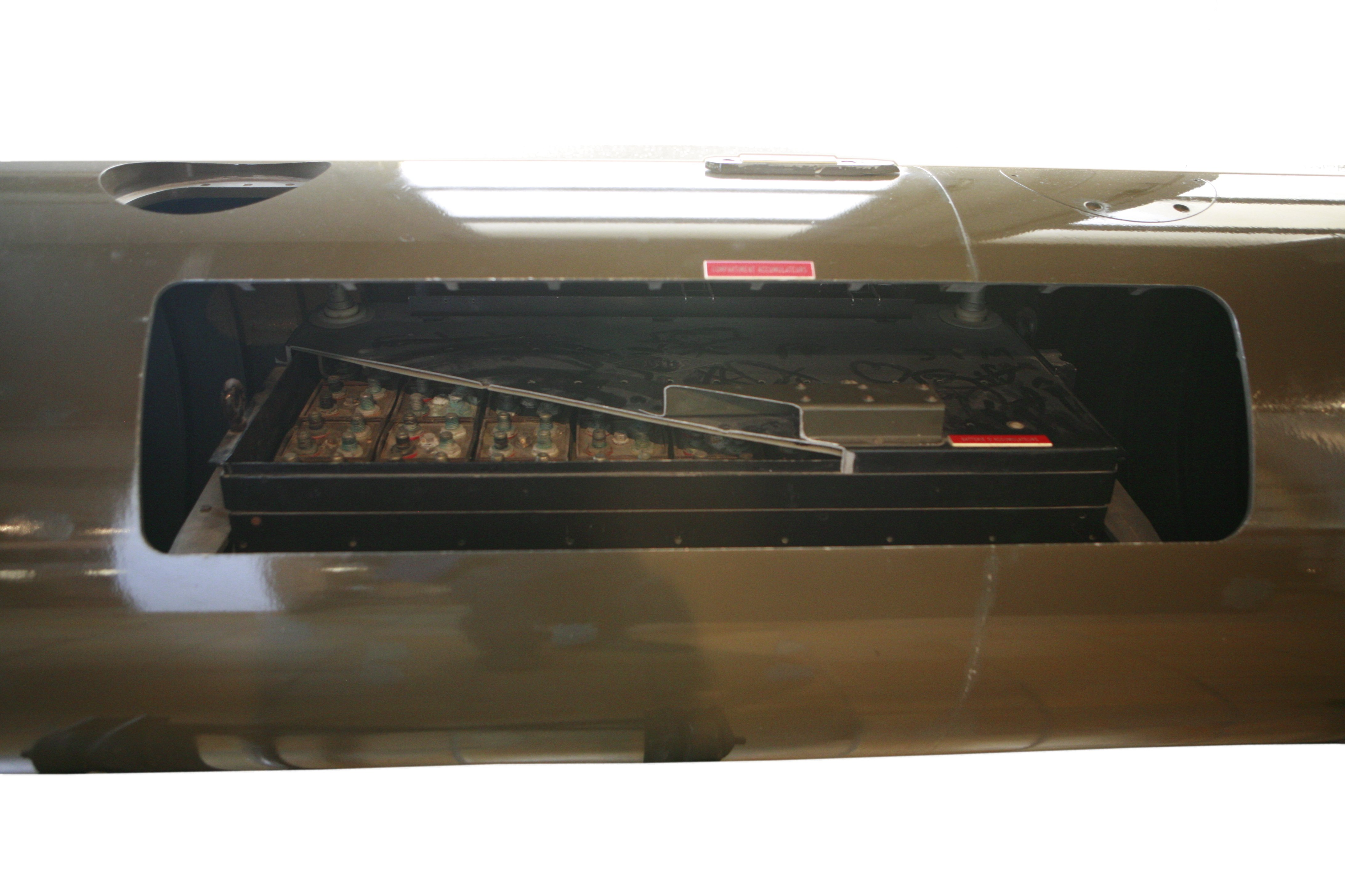 Heavy torpeda model Z 13 On display at Toulon naval museum. Access number 29 AR 53.